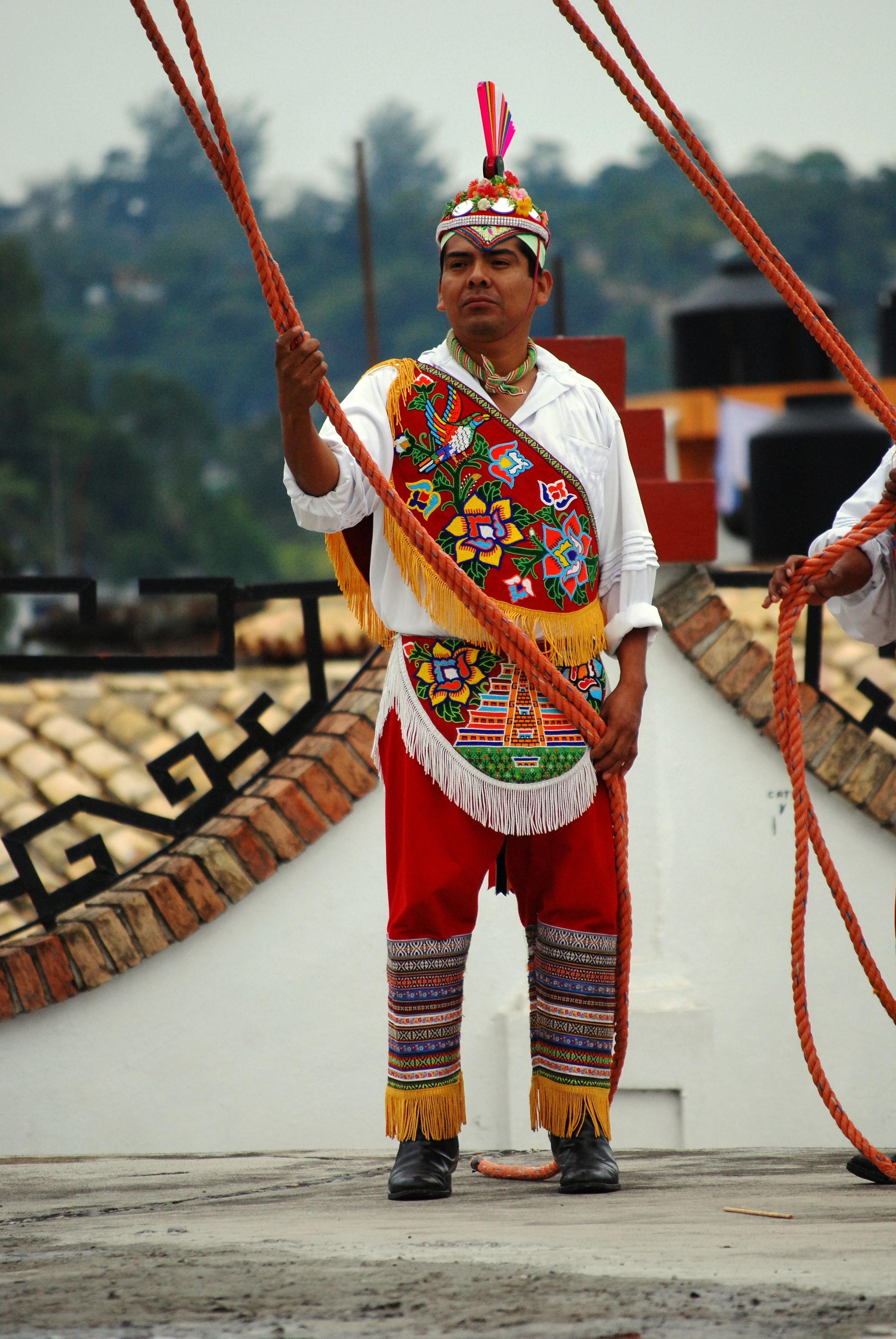 Close up of volador at the Church of the Assumption, Papantla, Mexico